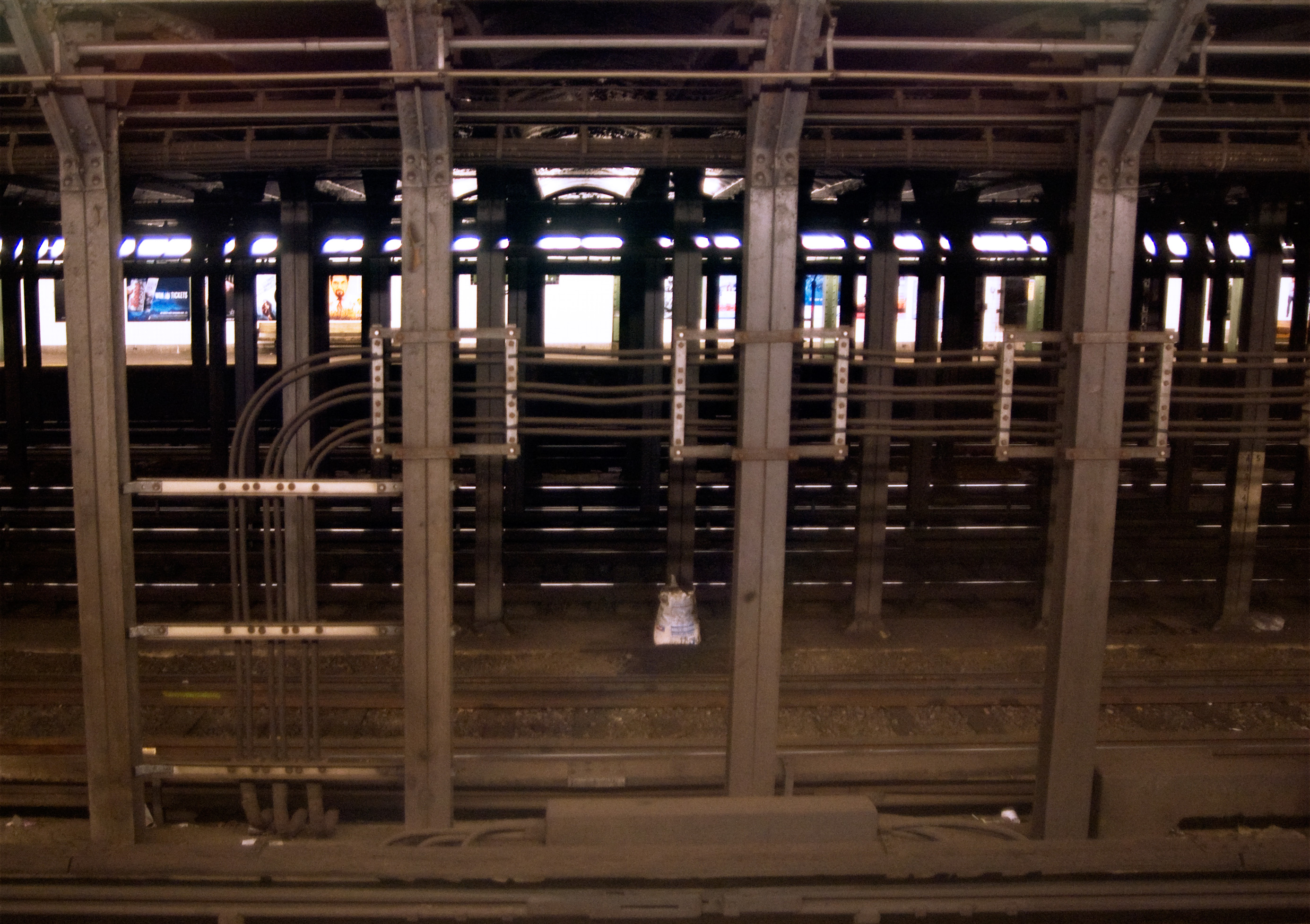 At 135th street -- where the number of tracks is obscene.